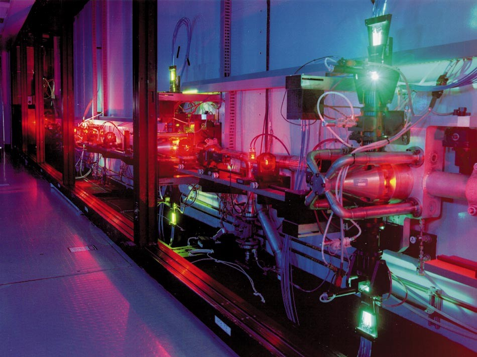 An atomic vapor laser isotope separation experiment at LLNL. Green light is from copper vapor pump laser used to pump a highly tuned dye laser (producing the orange light). Image taken from LLNL document "Laser Programs, the first 25 years".